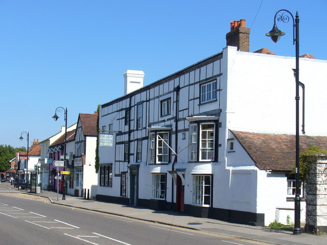 Cedar House This is one of Ripley's former coaching inns. It was the 17th Century George Inn. Ripley High Street was on the main London - Portsmouth road until recent years when the village was by-passed by the A3.